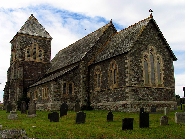 Church at Delabole. Church of St John the Evangelist, built ca. 1880 (architects Hine & Odgers)